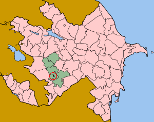 Map of Azerbaijan showing Shusha (Şuşa) sahar. It is completely part of Nagorno-Karabakh and named Shushi by the local population.